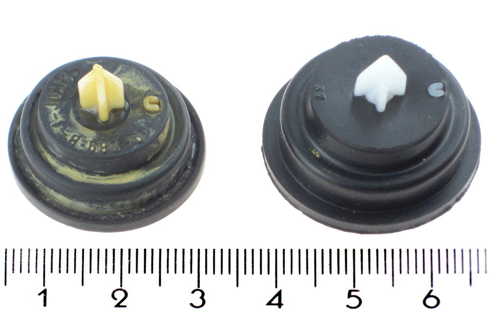 Rubber seals for flush toilet valves. There are several systems on the market and the size of the seals differ marginally.